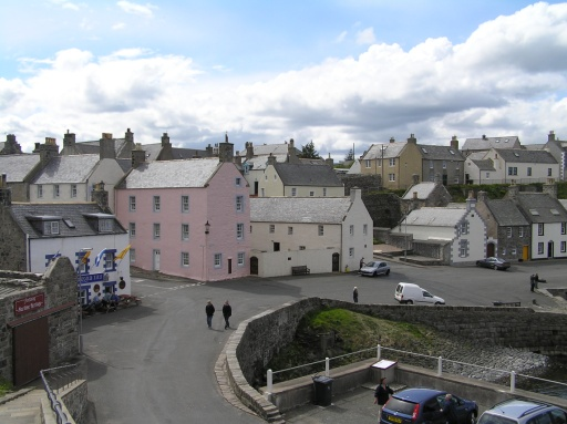 Photo of part of the Old Harbour, Portsoy, Banffshire, taken in May 2007 and scaled to size using GIMP 2.